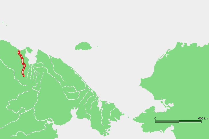 location map